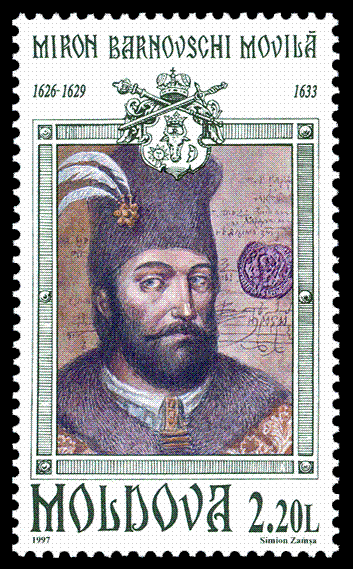 Stamp of Moldova